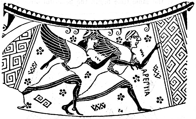 Vase painting from Athens in the 7th century. Winged Harpies are represented.